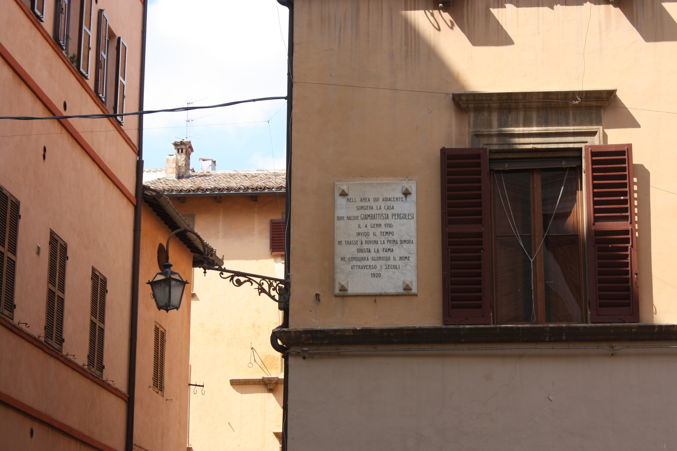 Plaque close to the site where Pergolesi was born, Jesi, Italy